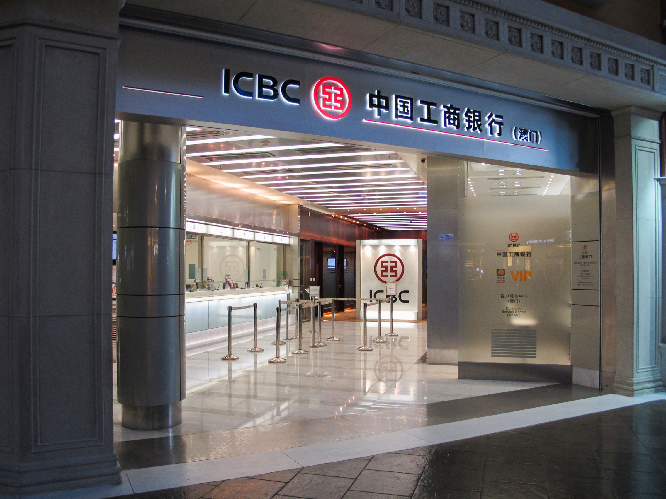 ICBC in Macau The Venetian